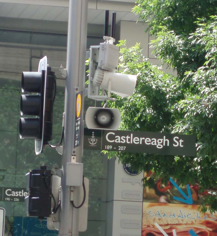 One of the various outdoor public address systems installed at various locations around Sydney's Central Business District. Primarily installed for any emergencies that were as a result of APEC Australia 2007 but now remain as a permanant outdoor public address system. Typically this speaker array is installed on traffic light installations as shown. This particular setup can be found on the corner of Castlereagh and Park Streets in Sydney, Australia. This particular system was manufactured by Bosch, as printed on the speaker horn and superimposed the driver backing.